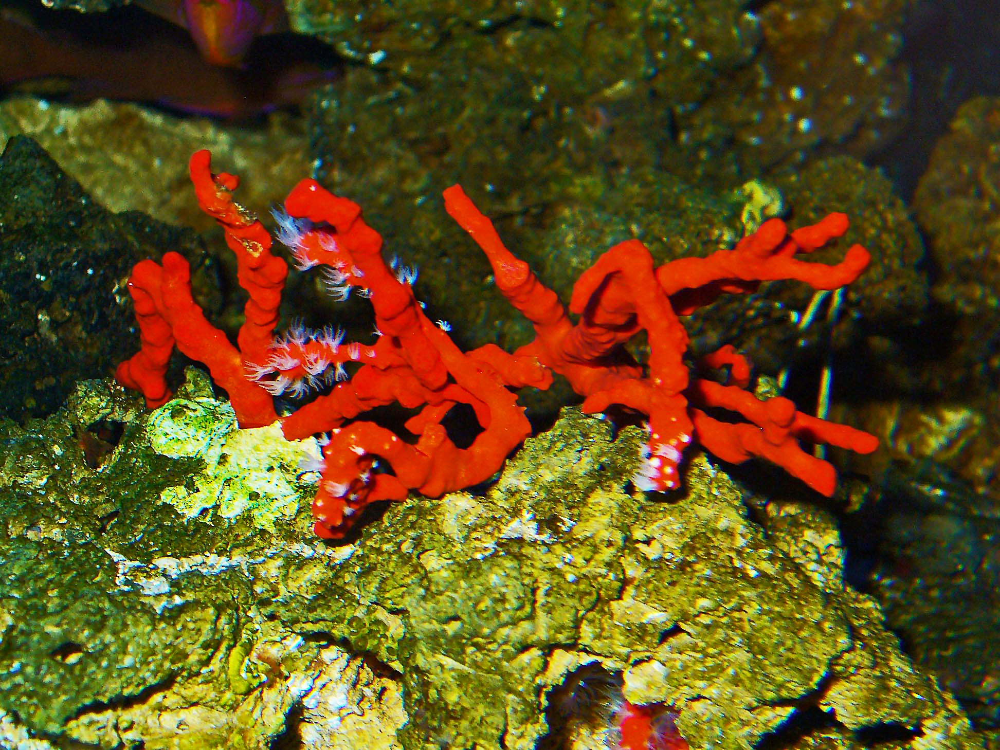 Corallium rubrum, Coralliidae, Precious Coral, Red Coral; Staatliches Museum für Naturkunde Karlsruhe, Germany. The skeleton, mainly consisting of calcium carbonate, is used in homeopathy as remedy: Corallium rubrum (Cor-r.)